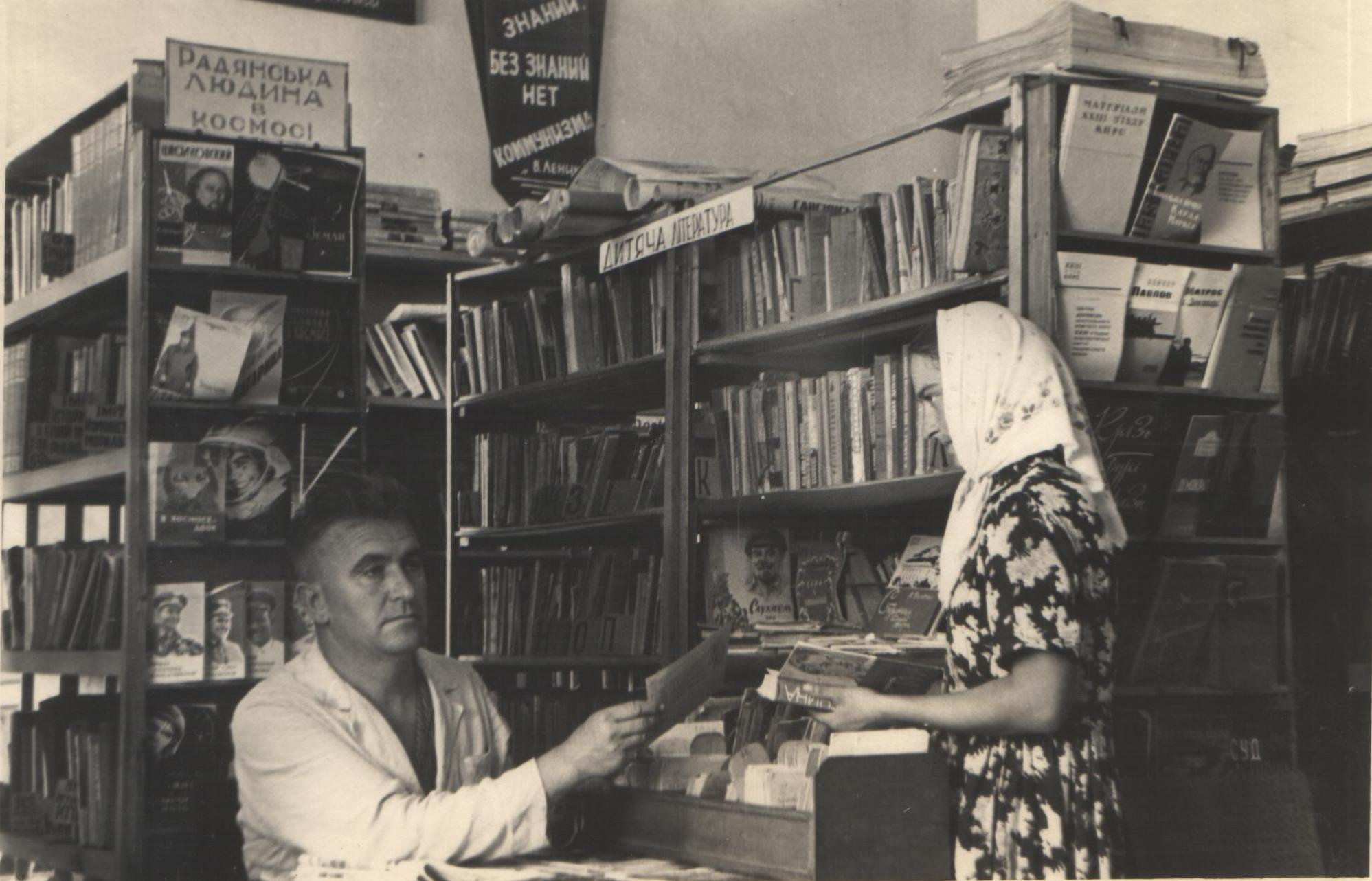 Сільська бібліотека (кінець 60 - початок 70- х років)